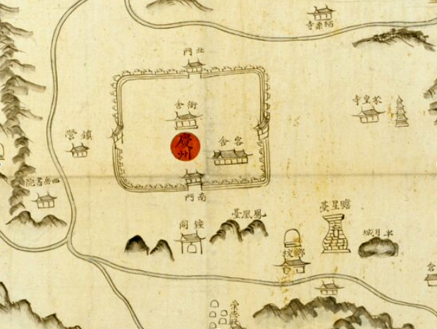 A portion of the Korean map, Gyeongju dohoe [Jwatongjido] on Gyeongju in the 18th century during the Joseon Dynasty